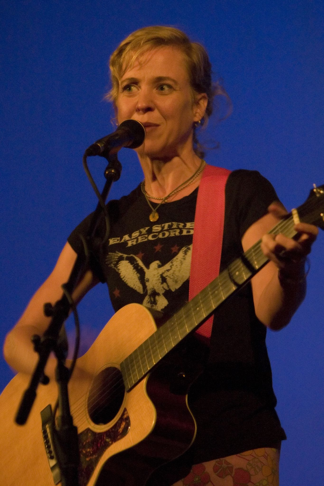 Kristin Hersh at the Brattle Theater, Harvard Square, Cambridge, MA, 2007-10-06.